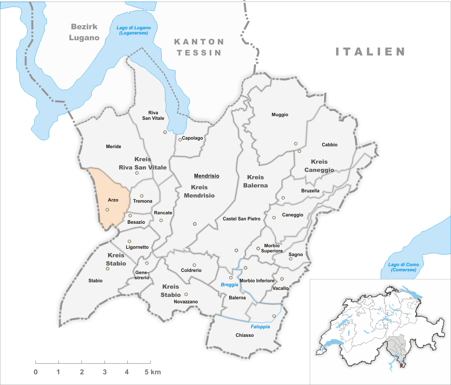 Municipality Arzo